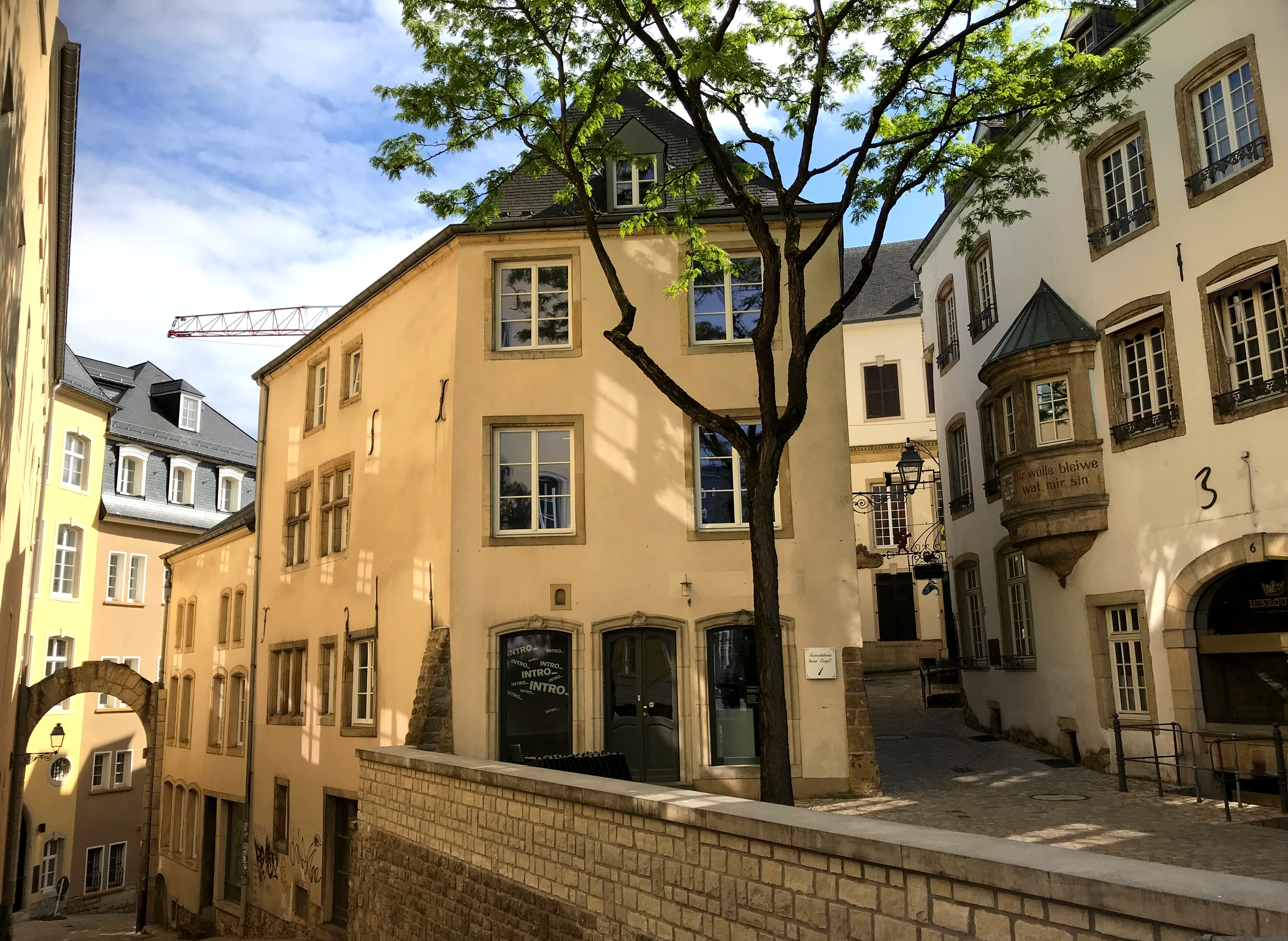 Streets in Luxembourg